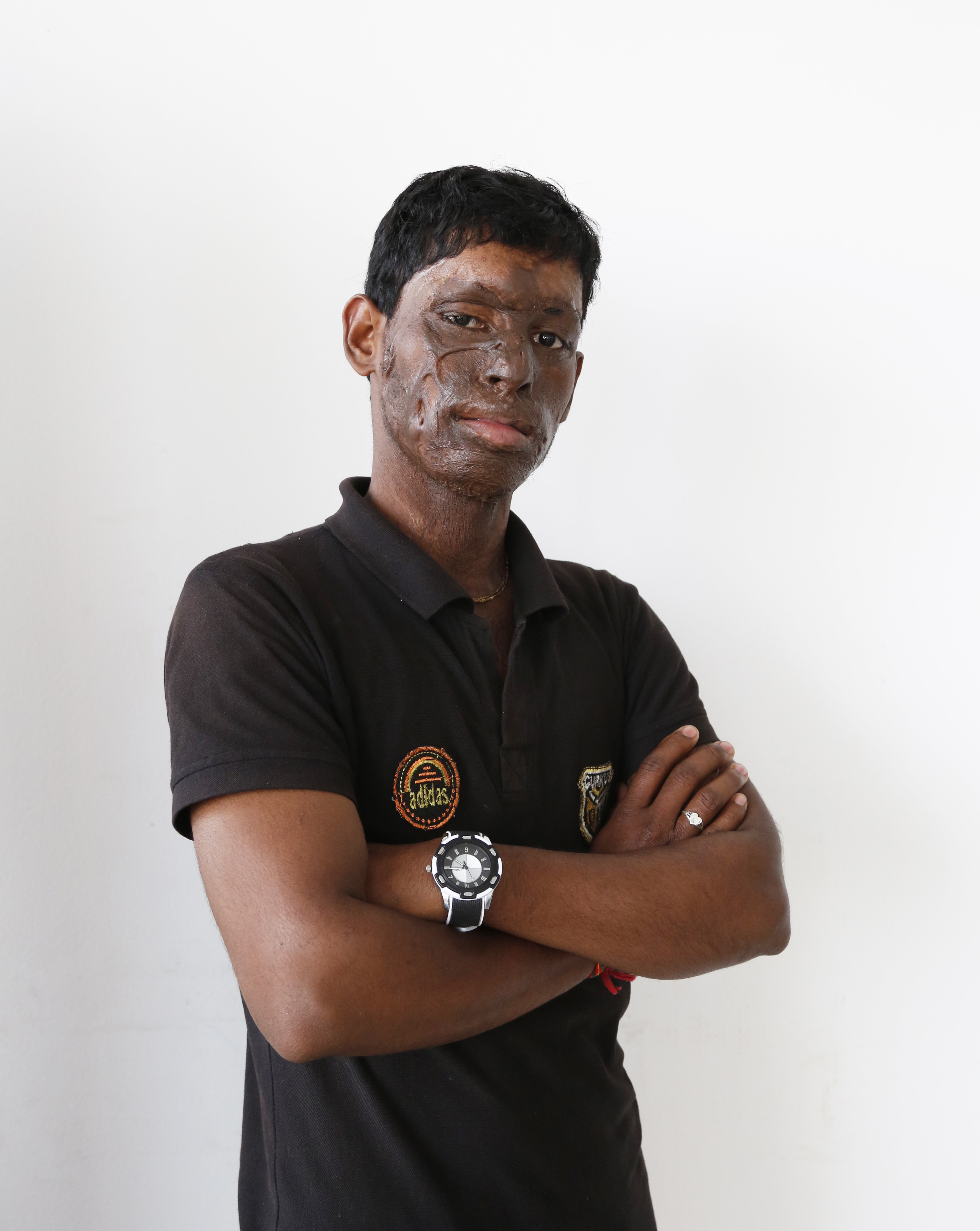 Rubel - an acid attack survivor - Picture: Ricci Coughlan/DFID licensed Creative Commons